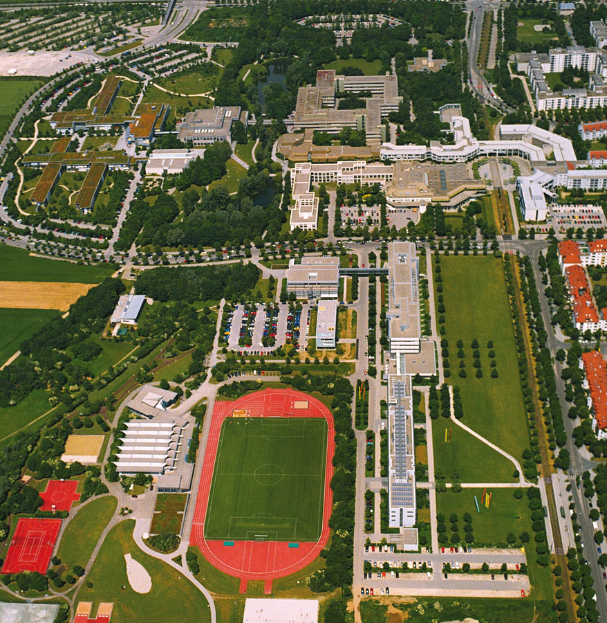 Augsburg University from above